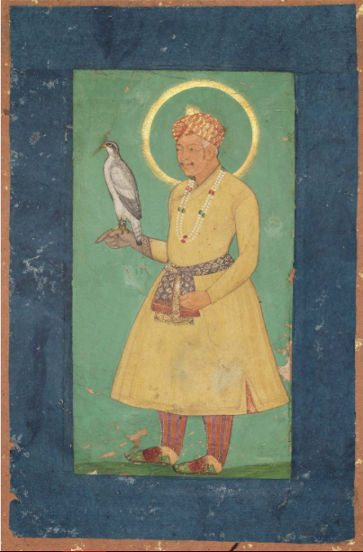 Emperor Akbar holds a falcon in his hand.